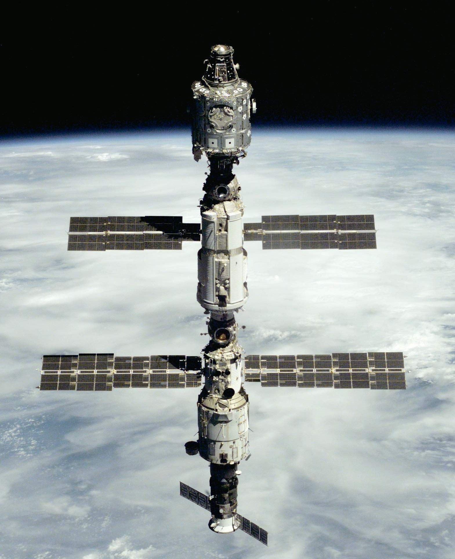 The International Space Station as seen from the departing Space Shuttle Atlantis on STS-106 following the arrival of the Russian Zvezda Service Module to the orbital complex. In view from top to bottom are the Unity Module, the Zarya FGB, the Zvezda SM and the docked Progress M1-3 spacecraft. During the course of the mission, the STS-106 crew readied the station for permanent occupation by outfitting it in preparation for the arrival of its first residents, the three-man Expedition 1 crew, launched aboard Soyuz TM-31 on 31 October 2000.